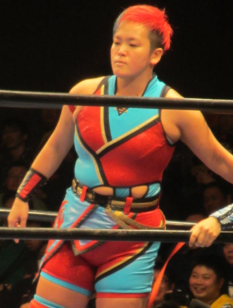 Japanese professional wrestler,Ryo Mizunami. Dec 31 2015, Ice Ribbon Korakuen Hall.